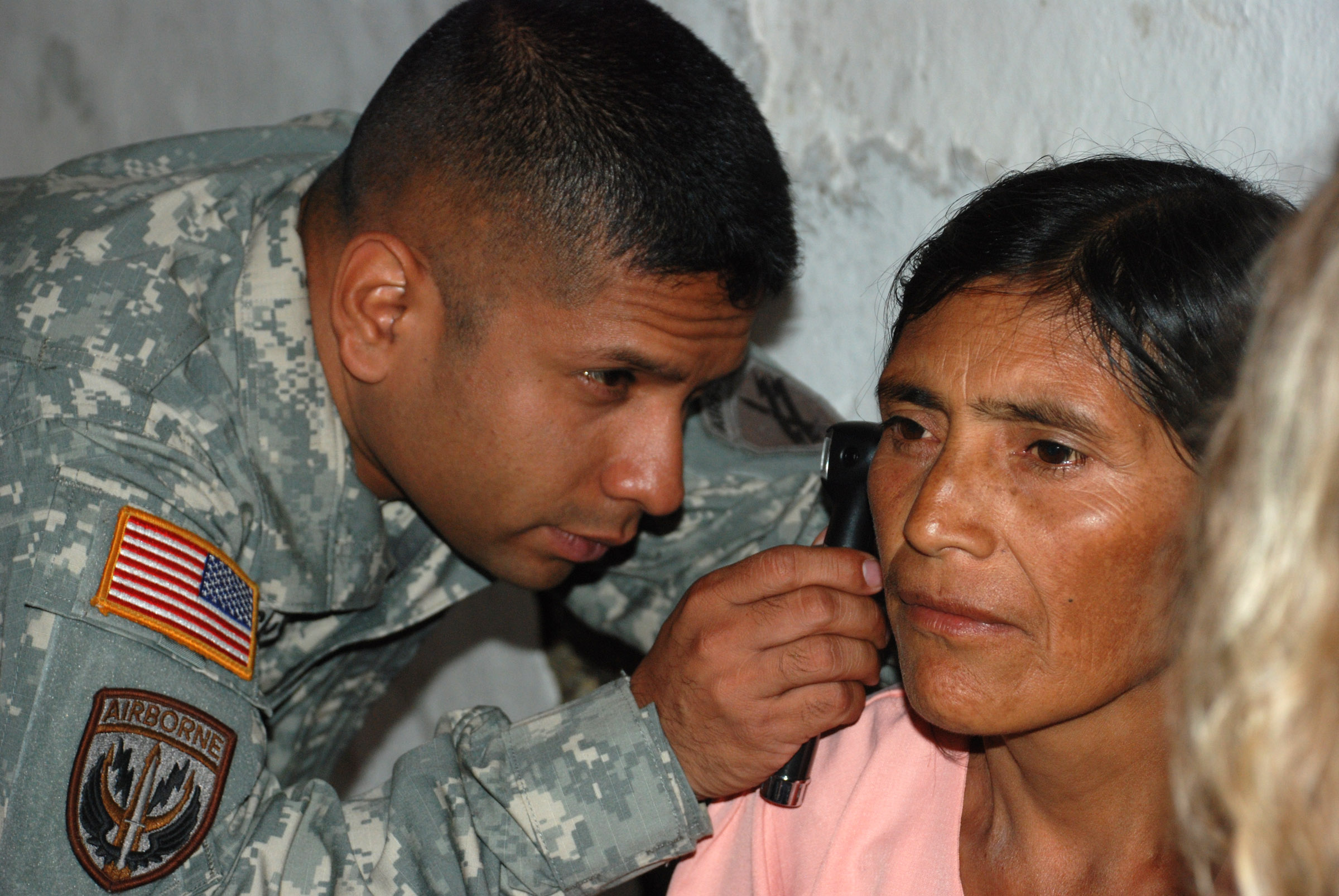 Sgt. Richard Cochea, a medical technician with Joint Task Force-Bravo's medical element, examines a Honduran woman with an ear infection at a health fair in Santa Ana, Honduras, March 24.